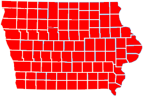 County map election results of Republican sweep